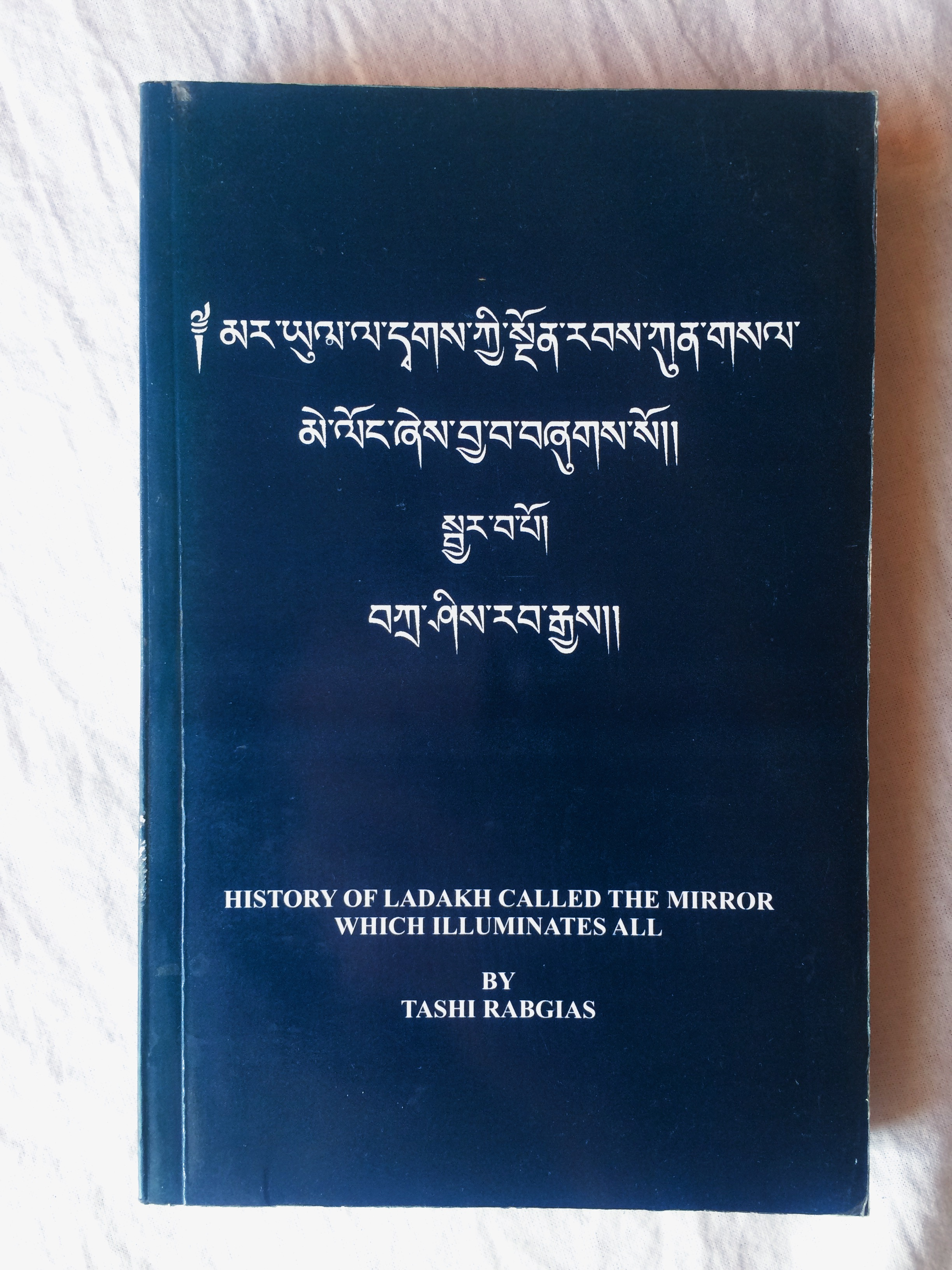 A book about the history of people of Ladakh, tracing back to a past rich in culture and heritage.